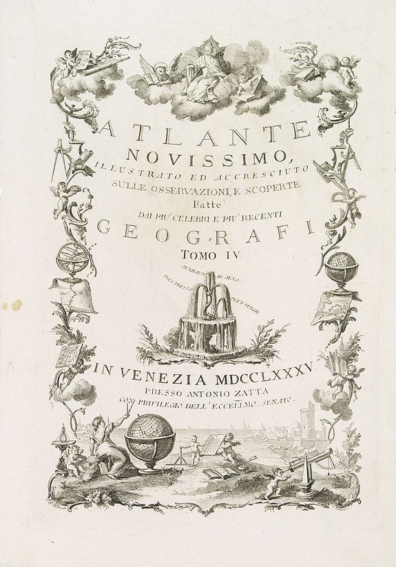 Frontispiece of "Atlante Novissimo"